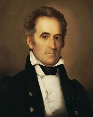 Portrait of Richard Mentor Johnson